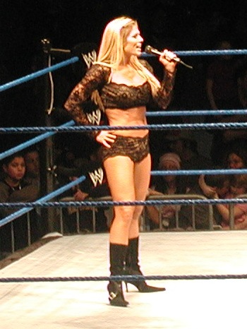 Torrie Wilson at a SmackDown! live event. Allstate Arena, Chicago, January 62005. Taken by me.